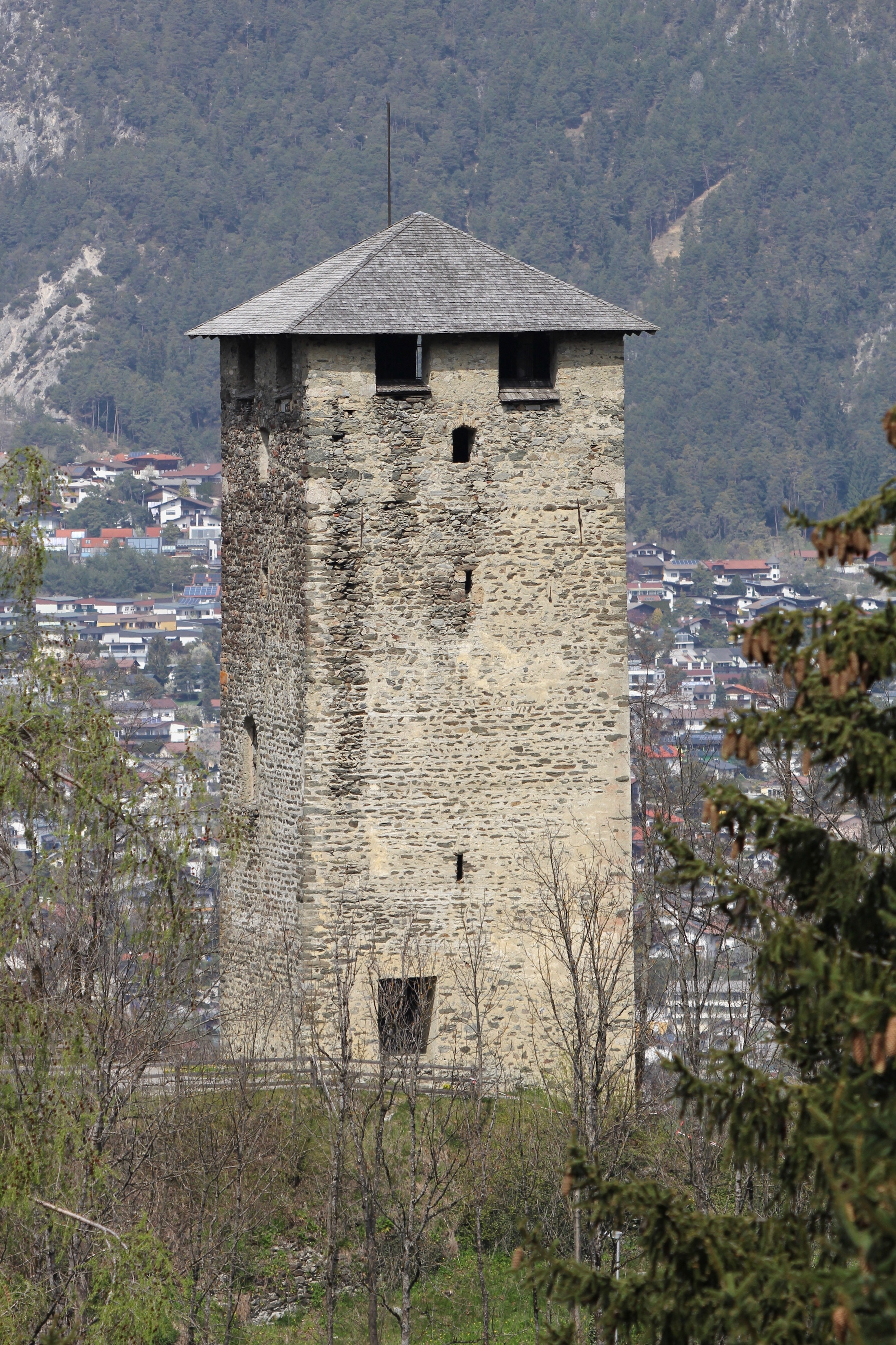 Hörtenberg castle ruin, view from the mountain down to the valley, overlooking the city of Telfs, Austria.